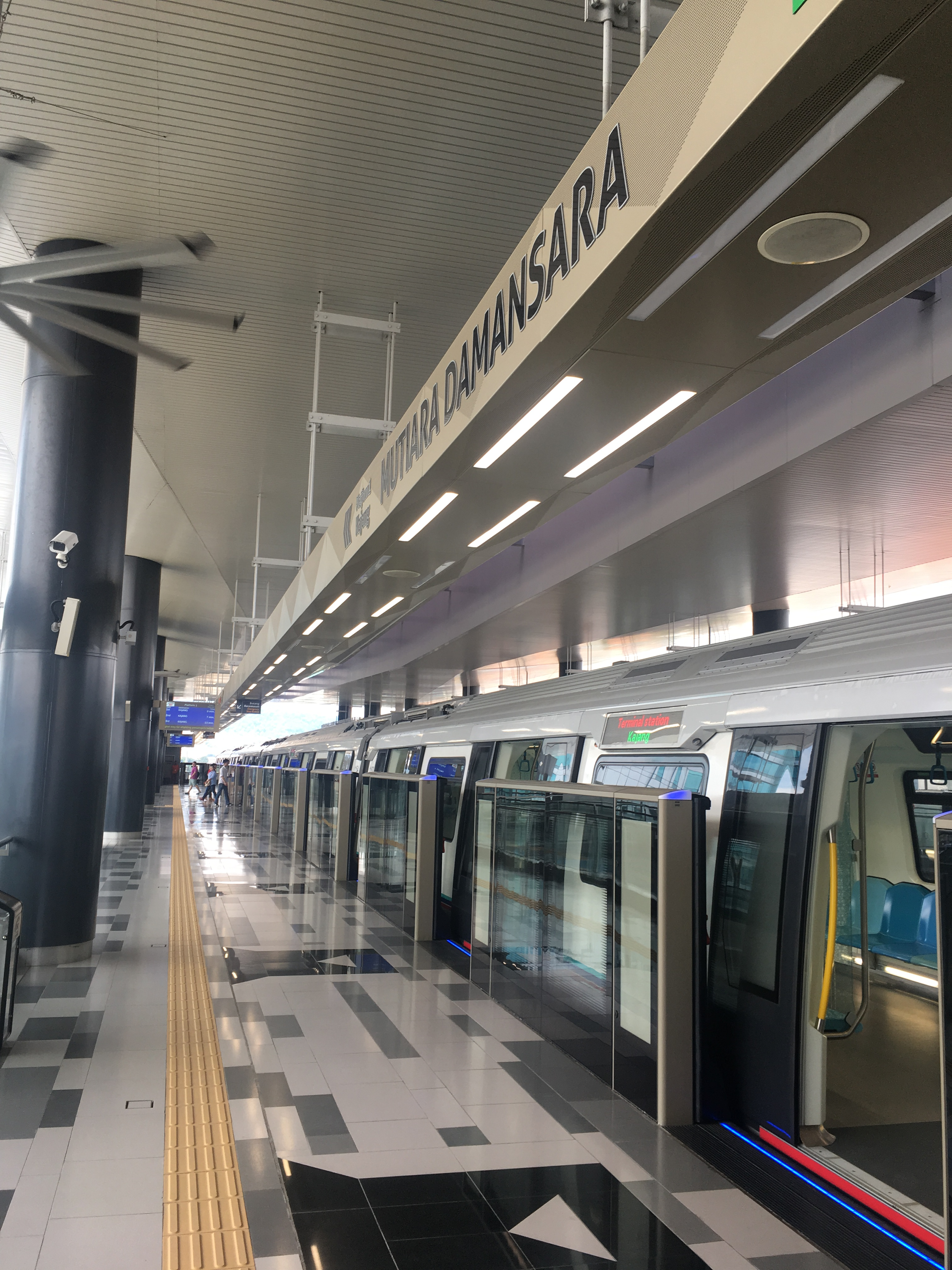 Platform 1 of the Mutiara Damansara MRT Station for south-bound trains.